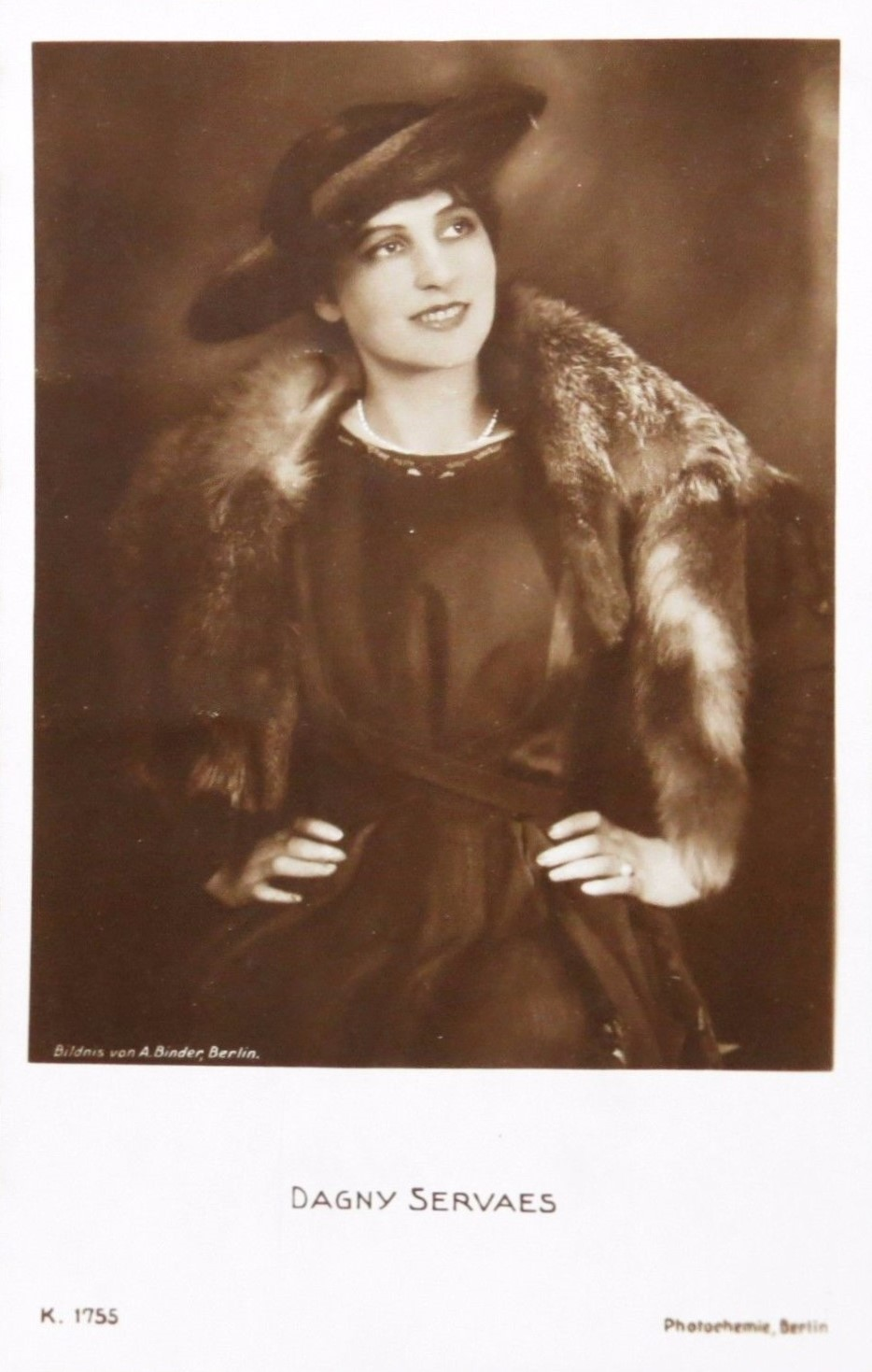 Portrait of actress Dagny Servaes, German postcard by Photochemie, no. K. 1755.